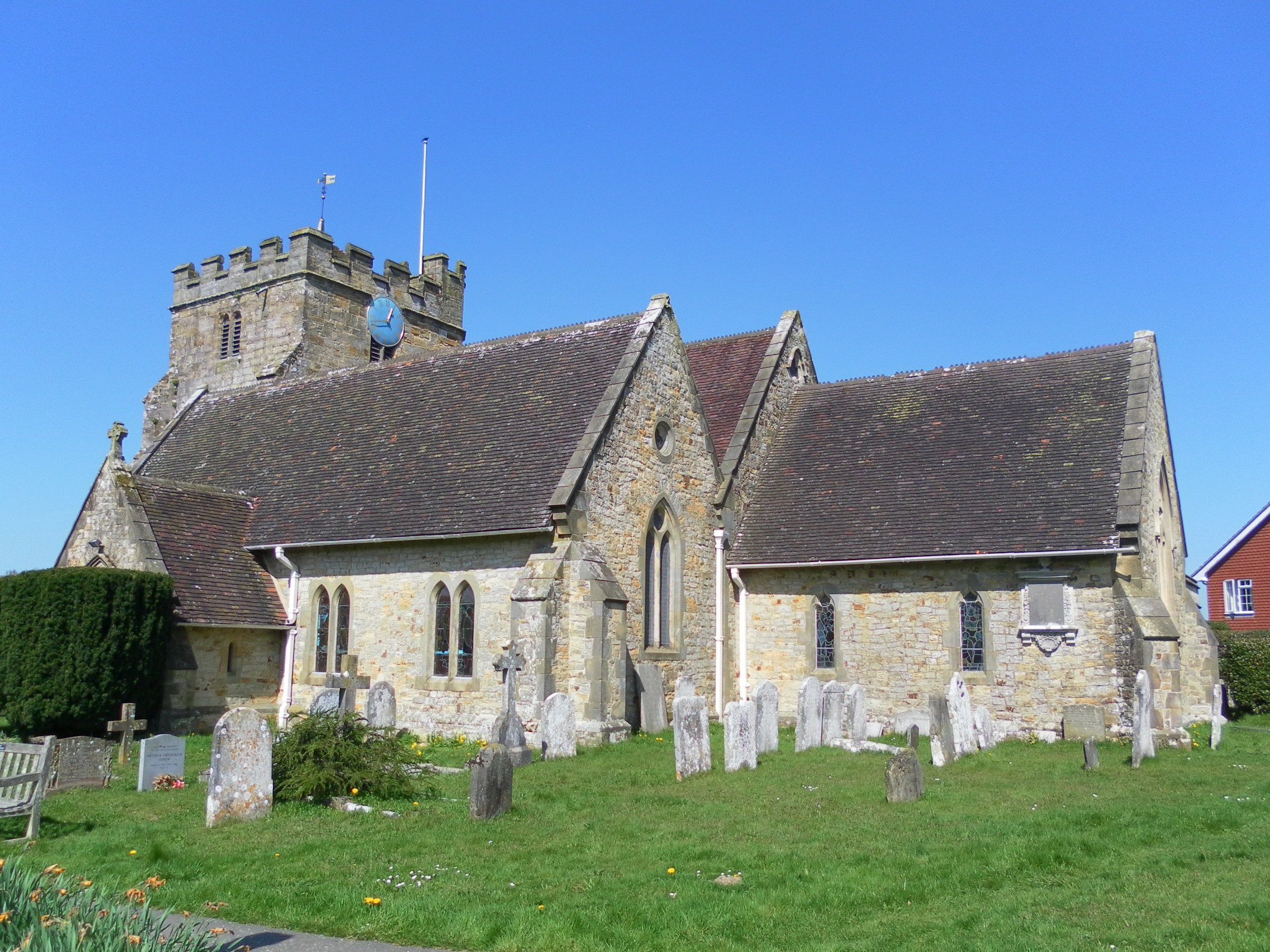 East Hoathly Church, East Hoathly, Wealden District, East Sussex, England. The Anglican parish church of the village of East Hoathly. Listed at Grade II* by English Heritage (IoE Code 295089)